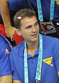 Spanish handball coach Raúl González Gutiérrez 2012